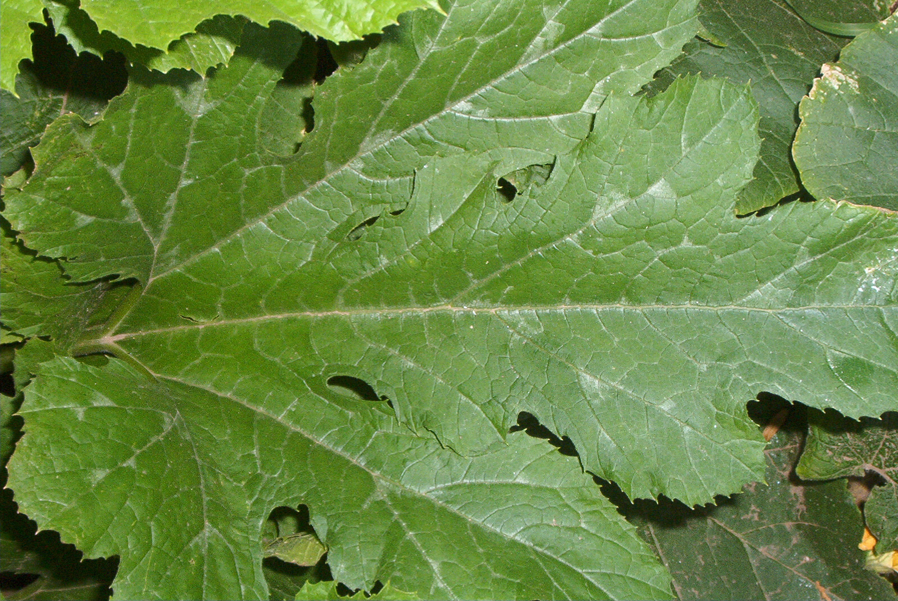 Cucurbita pepo 'Zucchini Grey' (semillería Florensa) or "Zapallito alargado de Génova" (semillería Florensa) - "mottled leaf" (white or silvered spots at the junctions of the veins) this is a genetic character, not a disease. Fortín Olavarría, partido de Rivadavia, provincia de Buenos Aires, Argentina.